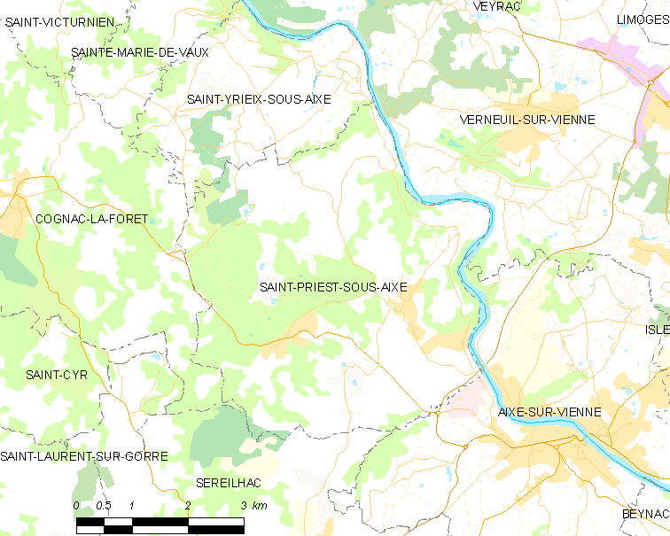 Map of French municipality Saint-Priest-sous-Aixe